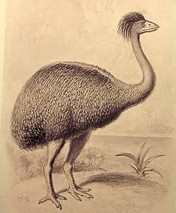 Aepyornis maximus